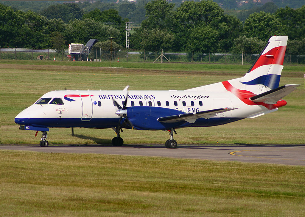 This image was taken by Martin J.Galloway. Donated from the British Photo Encyclopedia Dotonegroup : talk. Loganair SAAB 340B Glasgow International Airport. Wearing British Airways colours, Loganair's logo can be seen below the cockpit window.